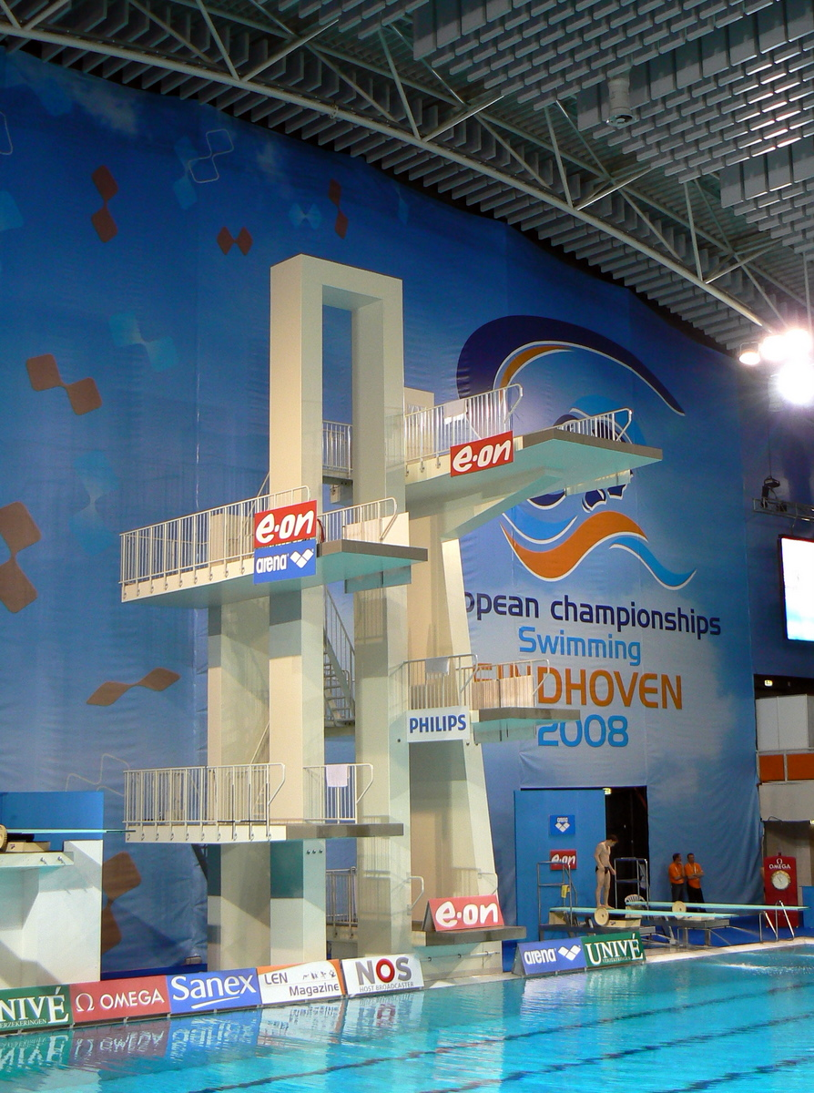 29th European Diving Championships in National Swimming Centre "Tongelreep", Eindhoven